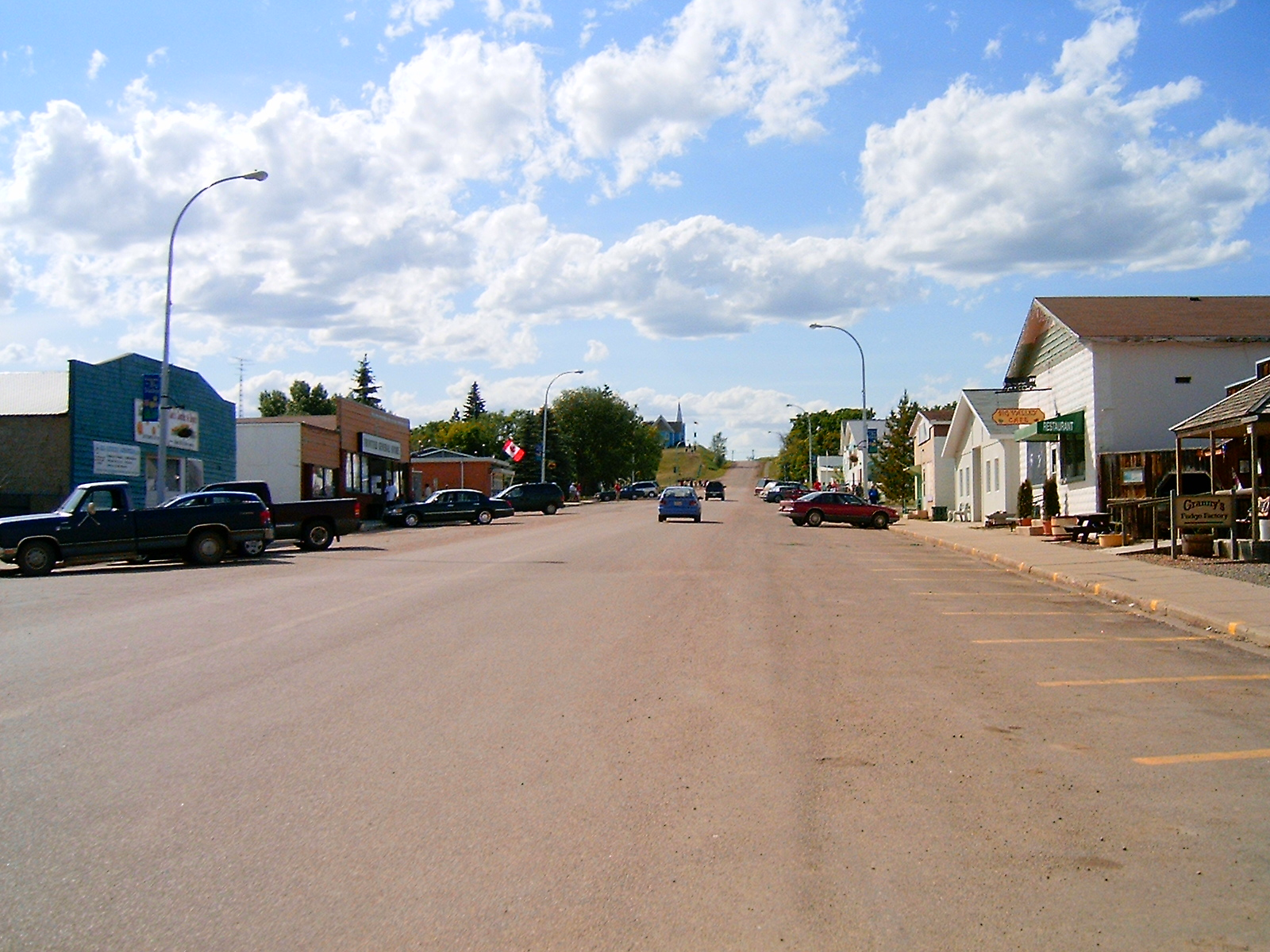 Mainstreet Big Valley, Alberta